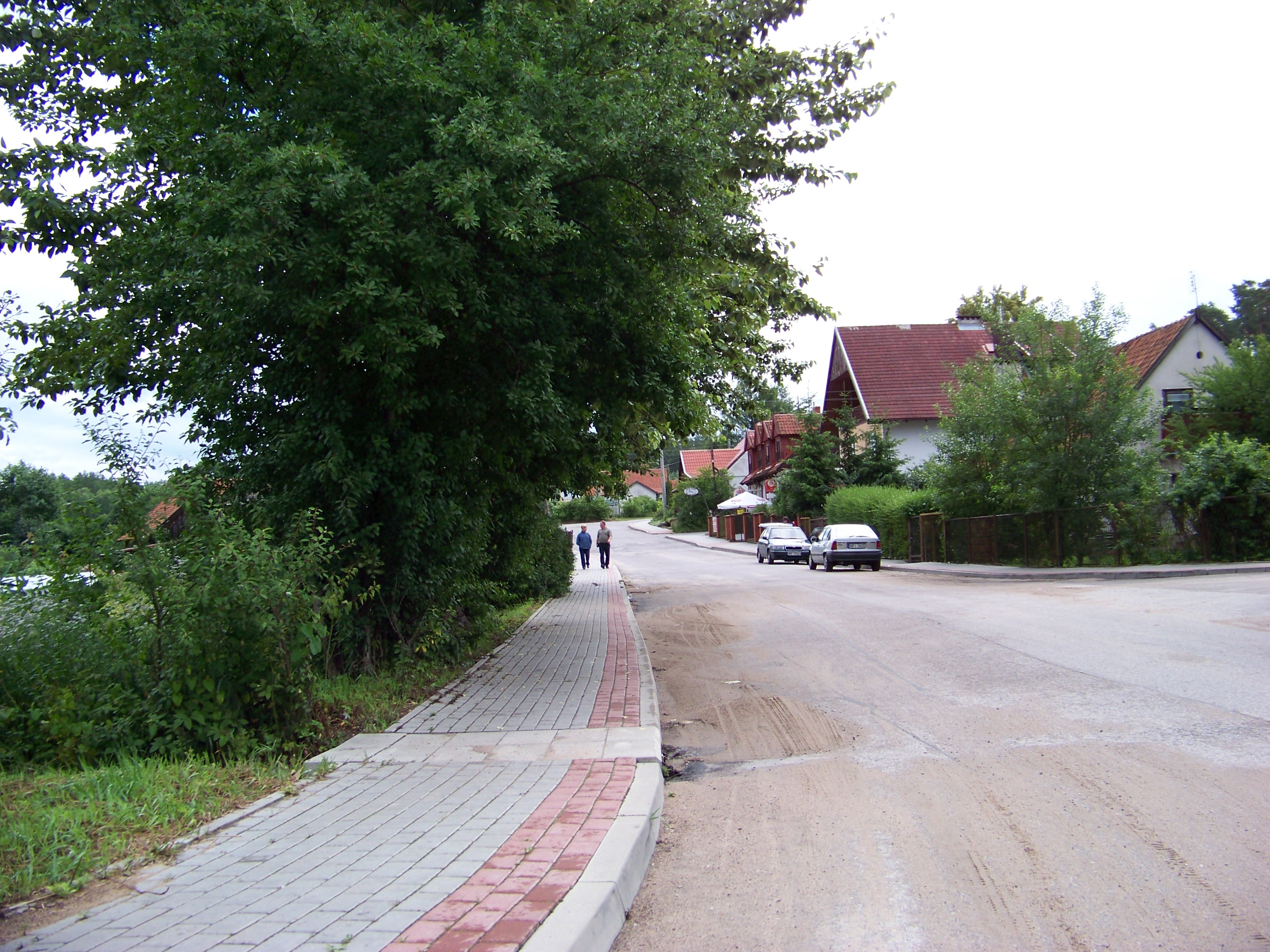 Wiartel